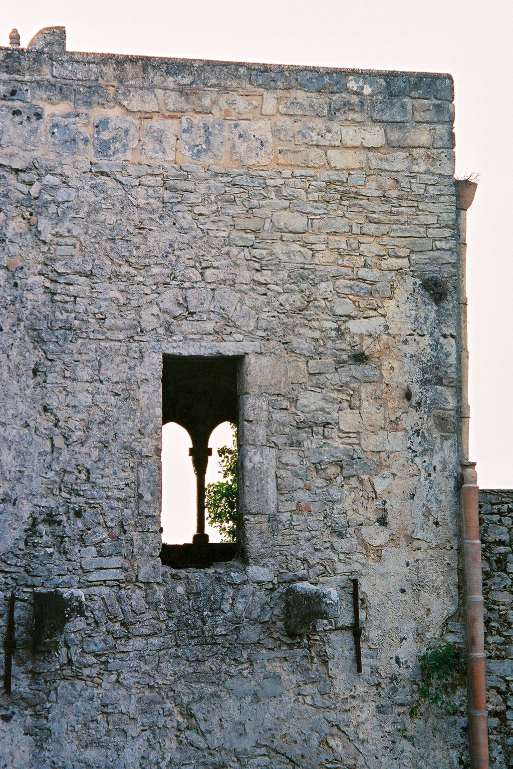 Castello del Balio, Erice Main building seen from inner yard